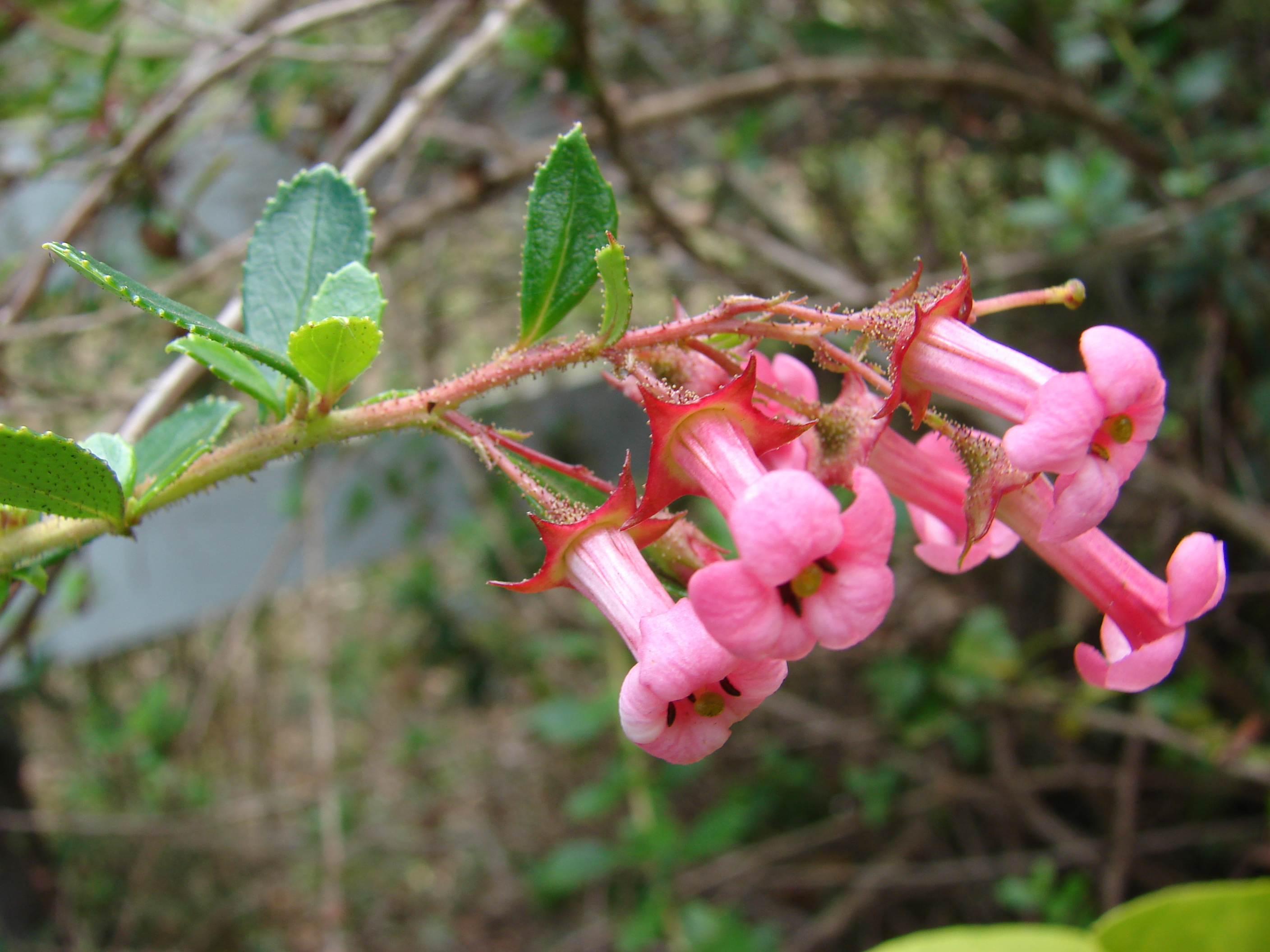 Escallonia rubra var. macrantha (flowers and leaves). Location: Maui, Enchanting Gardens of Kula